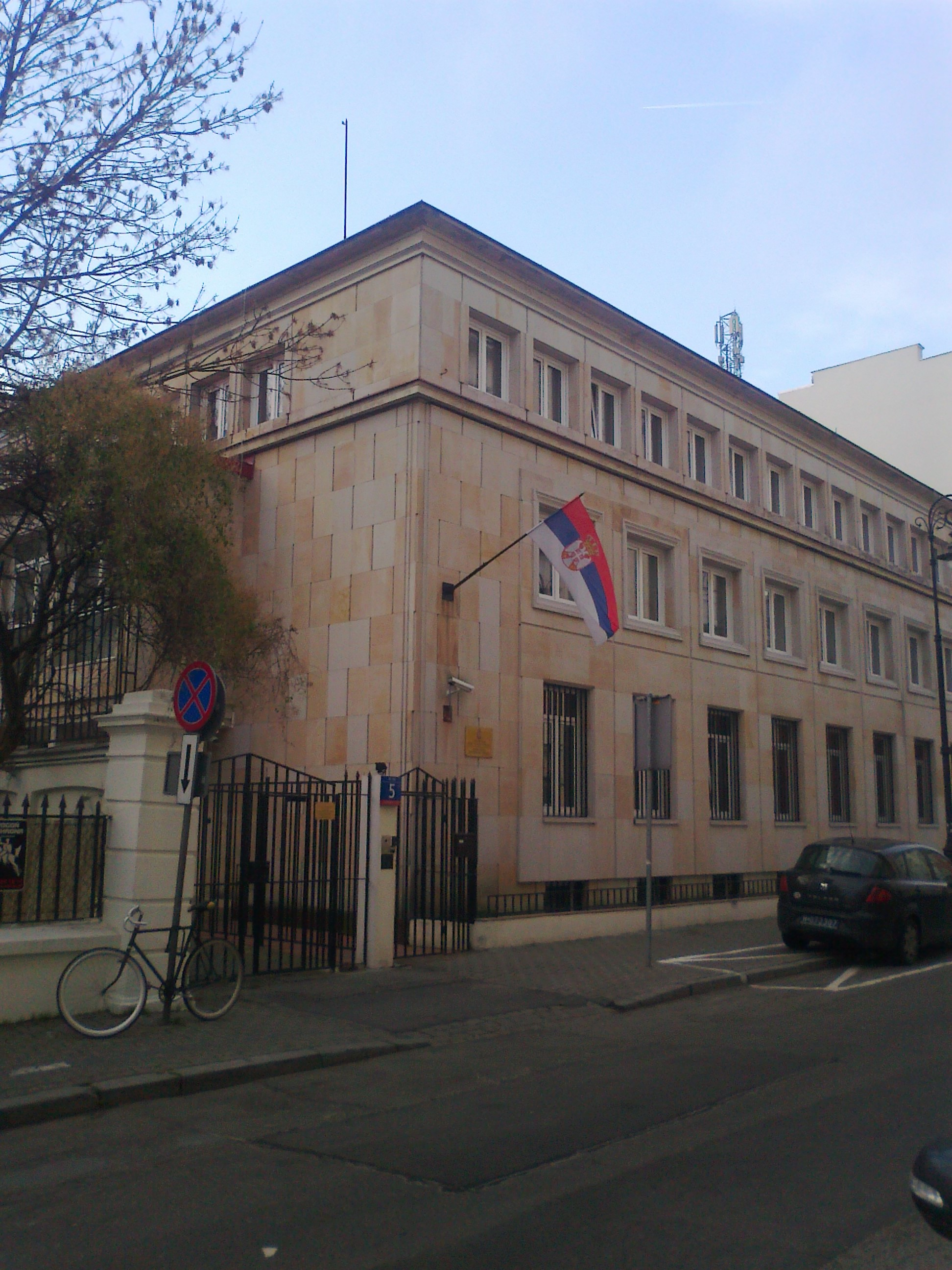 Embassy of Serbia in Warsaw